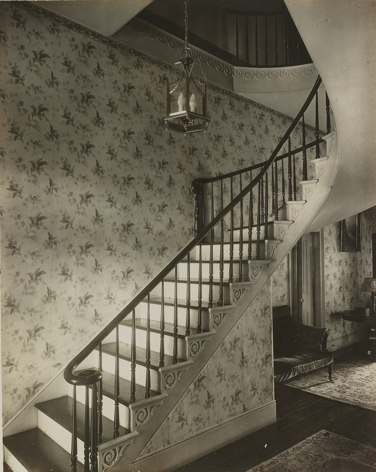 Title Cottage garden, Natchez, Adams County, Mississippi Contributor Names Johnston, Frances Benjamin, 1864-1952, photographer Created / Published 1938. Subject Headings - United States--Mississippi--Adams County--Natchez - Balusters. - Stairways. - Wallpapers. - Interiors. - Houses. - Mississippi--Adams County--Natchez Format Headings Photographic prints. Notes - Title from photographer's inventory. - Home of the Foster family. At one time owned by Jose Vidal, acting Gov. of Natchez Territory. - Building/structure dates: ca. 1790. - Corresponding Carnegie Survey of the Architecture of the South neg. no. 1031. Library has no record of having this neg. - Gift; Anne E. Peterson; 2011; (DLC/PP-2011:206) - Forms part of: Carnegie Survey of the Architecture of the South (Library of Congress). Medium 1 photographic print. Call Number/Physical Location LOT 11838-1 [item] [P&P] Repository Library of Congress Prints and Photographs Division Washington, D.C. 20540 USA Digital Id ppmsca 32353 //hdl.loc.gov/loc.pnp/ppmsca.32353 Control Number csas201207181 Reproduction Number LC-DIG-ppmsca-32353 (digital file from photograph) Rights Advisory No known restrictions on publication. Online Format image Description 1 photographic print.